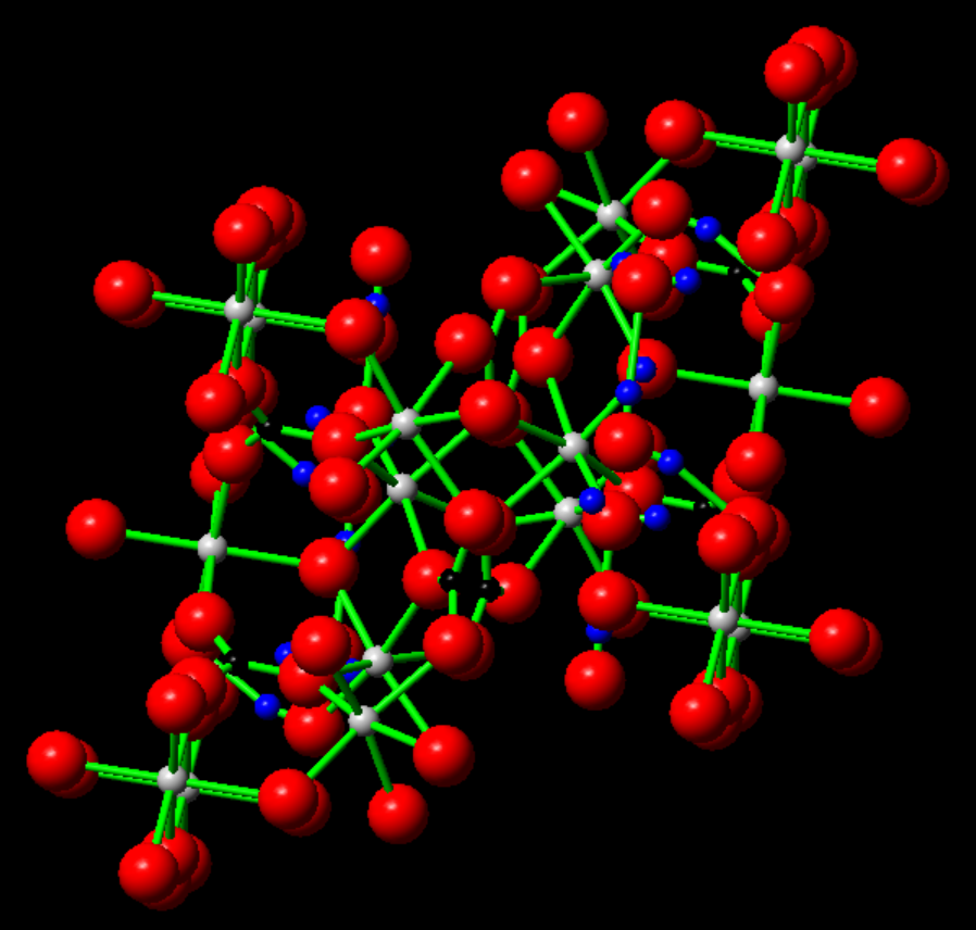 A stick-and-ball diagram of the possible crystal structure of widgiemoolthalite, based on its structural analog, hydromagnesite, as reported in Akao & Iwai (1977) modified based on information from Nickel, Robinson, & Mumme (1993). Created using Xtaldraw, viewed down the b axis.